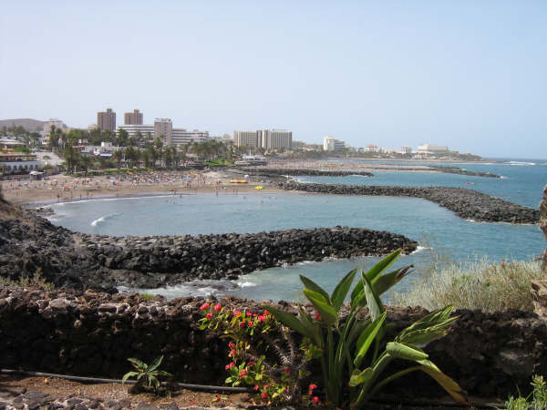 Coast of Playa de Las Américas, general view. Tenerife, Canary Islands. Spain.